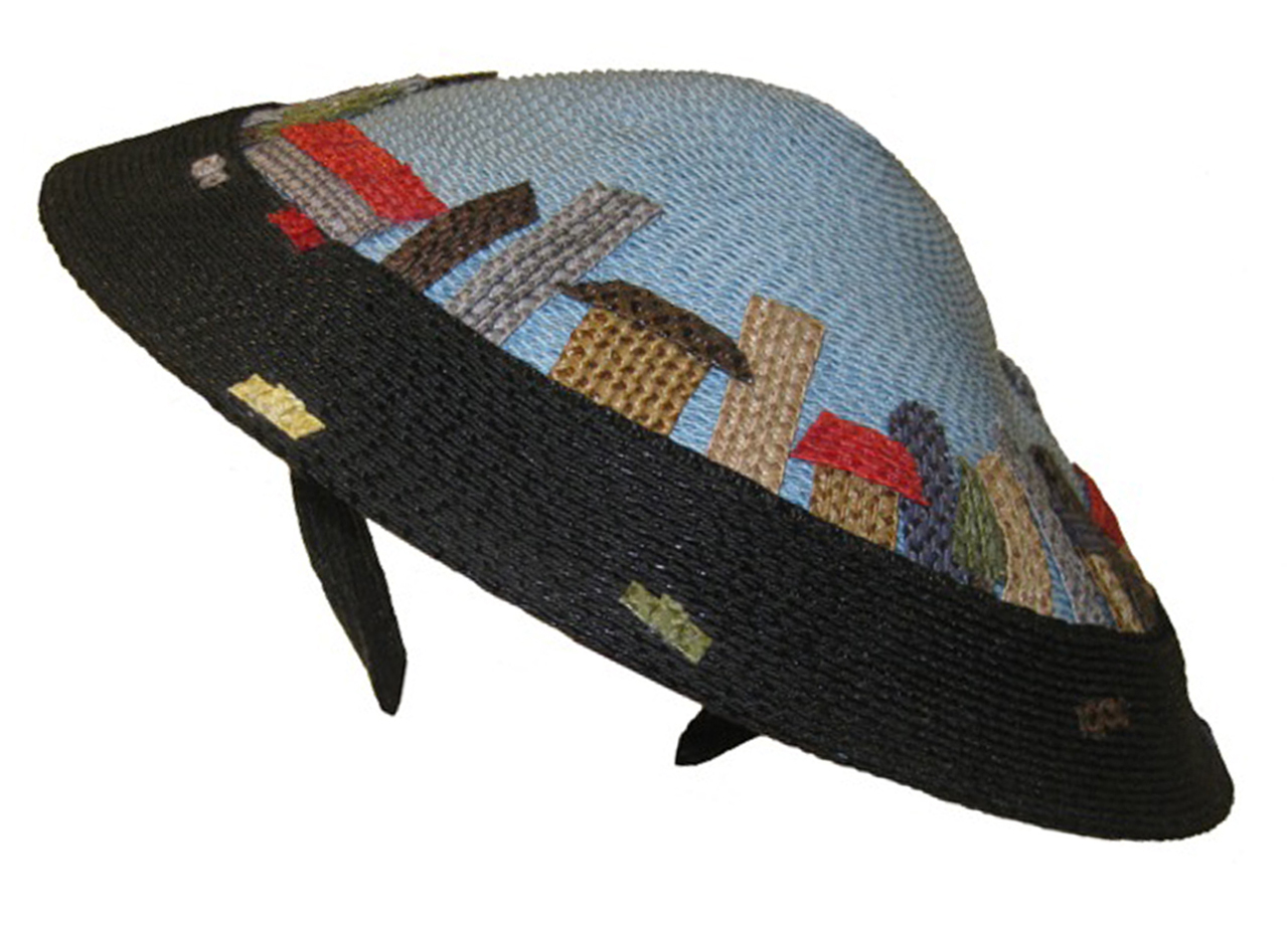 Cityscape Headpiece by Jennifer Ouellette, exhibited in the Victoria and Albert Museum's millinery exhibition, Hats: An Anthology. The design of the hat is in tribute to New York's resilience following the events of 9/11.[1]